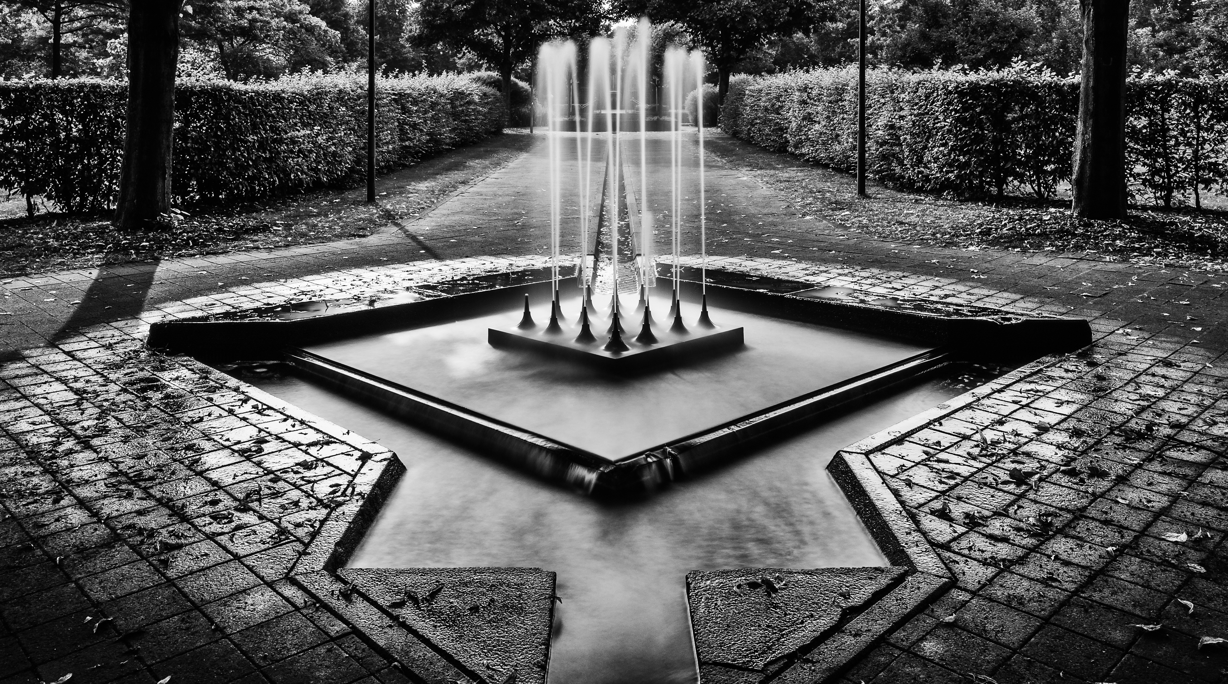 Water game in MüGa-Park in Mülheim an der Ruhr in b/w with long exposure (1000x ND filter)